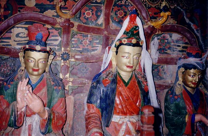 Tibet king Sonsten Gampo (in the middle) and his two wifes, princess Bhrikuti of Nepal and princess Wencheng of China, the two wife bring bouddhism to Tibet. Kumbum of Gyantse.